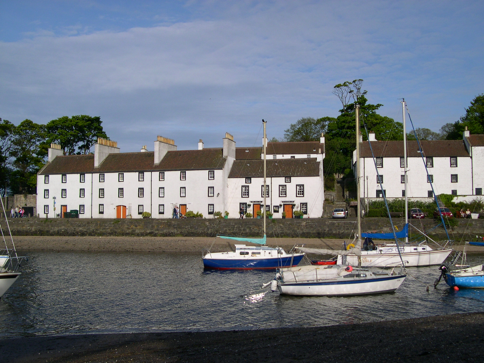 A picture of the village harbour at Cramond, Edinburgh, Scotland.